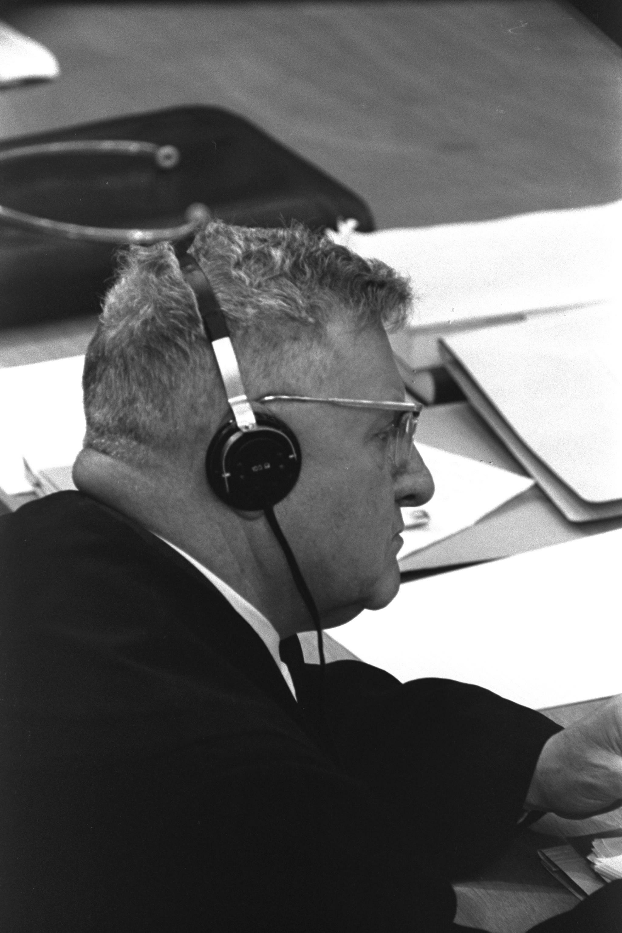 Robert Servatius at Adolf Eichman trial